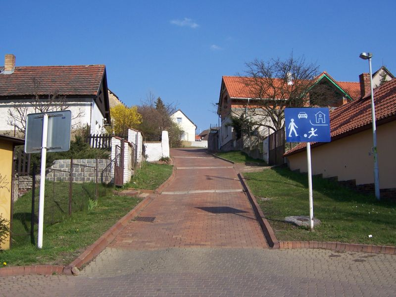 Prague-Petrovice, Einsteinova St.